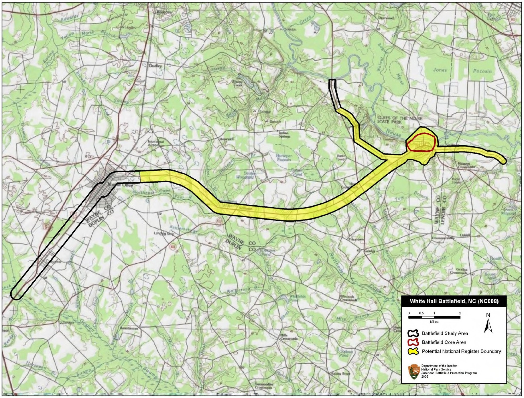 Map of battlefield core and study areas. The Study Area was expanded to include Garrard’s cavalry movements against Mount Olive and the destruction of the Goshen Swamp Bridge.